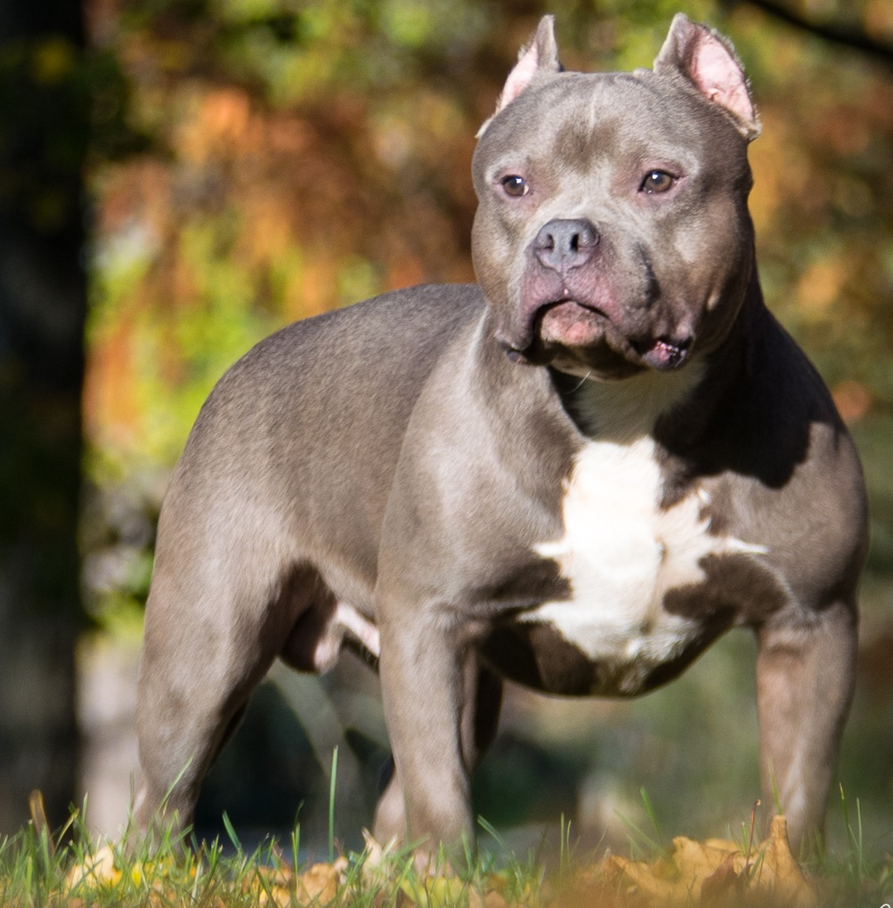 UKC (United Kennel Club) conformation Champion "Charlie Muscles", American Bully dog.